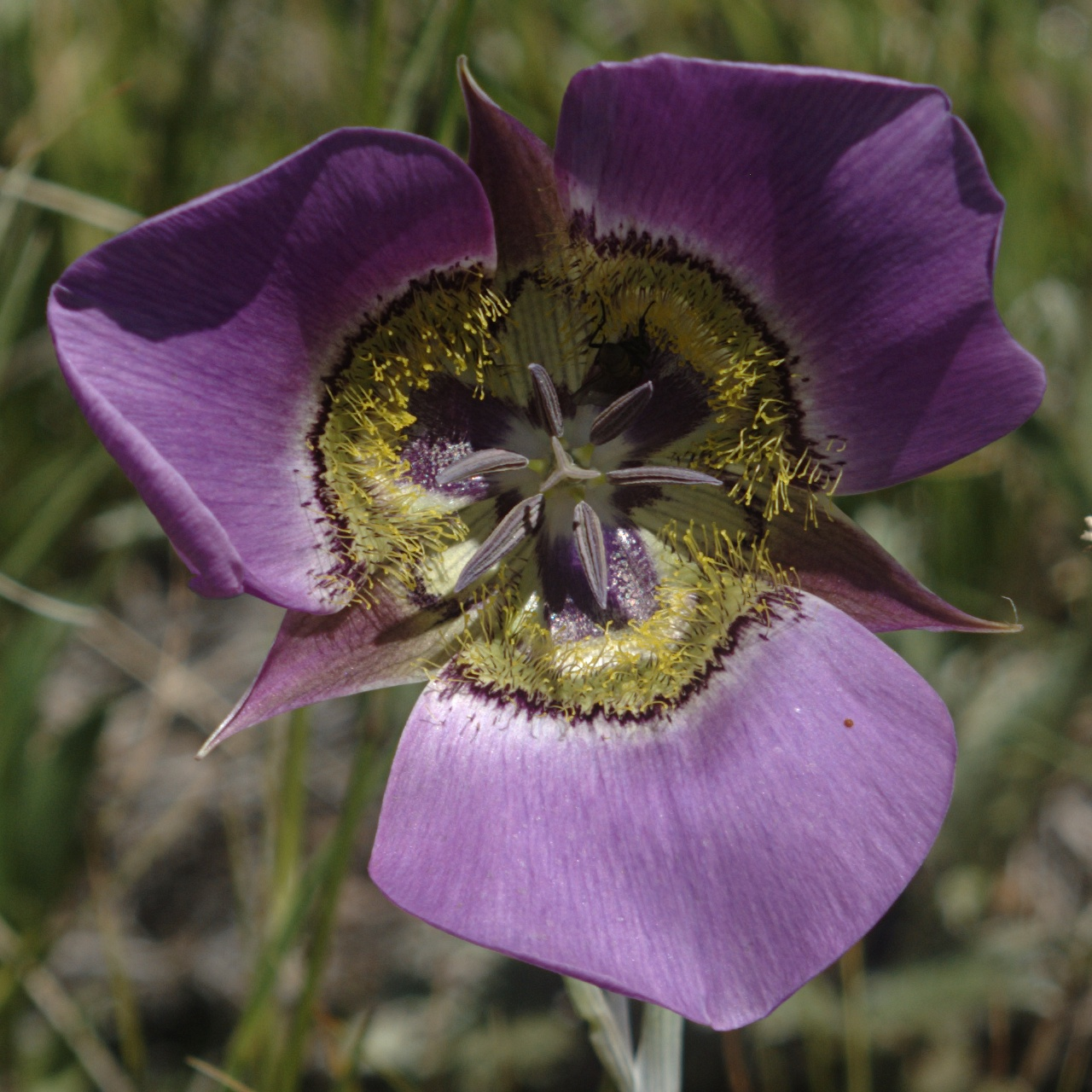 Flower of Calochortus gunnisonii var. gunnisonii — Gunnison's mariposa lily or mariposa tulip. On ridge west of Chicoma, Santa Fe National Forest, Rio Arriba County, New Mexico. Cropped for use at Calochortus.